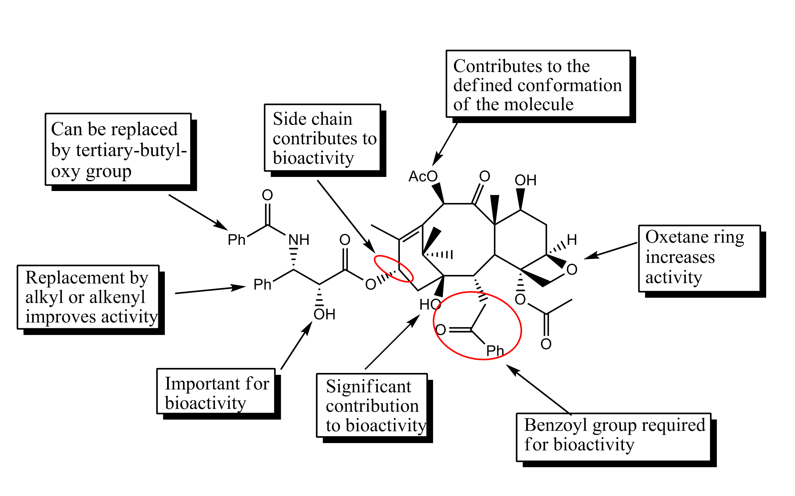 Importance of the functional groups and the rings are shown.